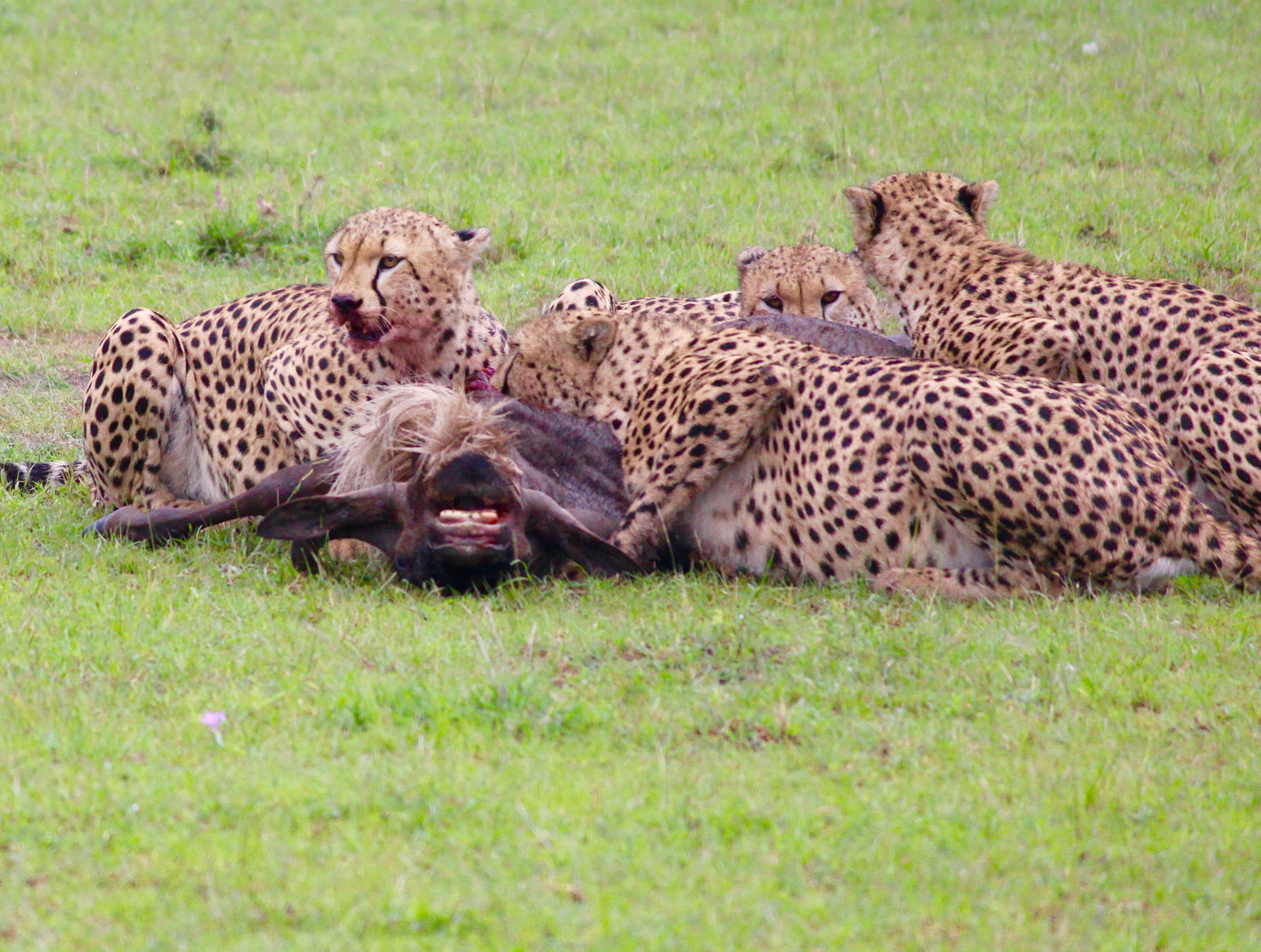 photos I took on my recent undergraduate trip to kenya for a zoology module